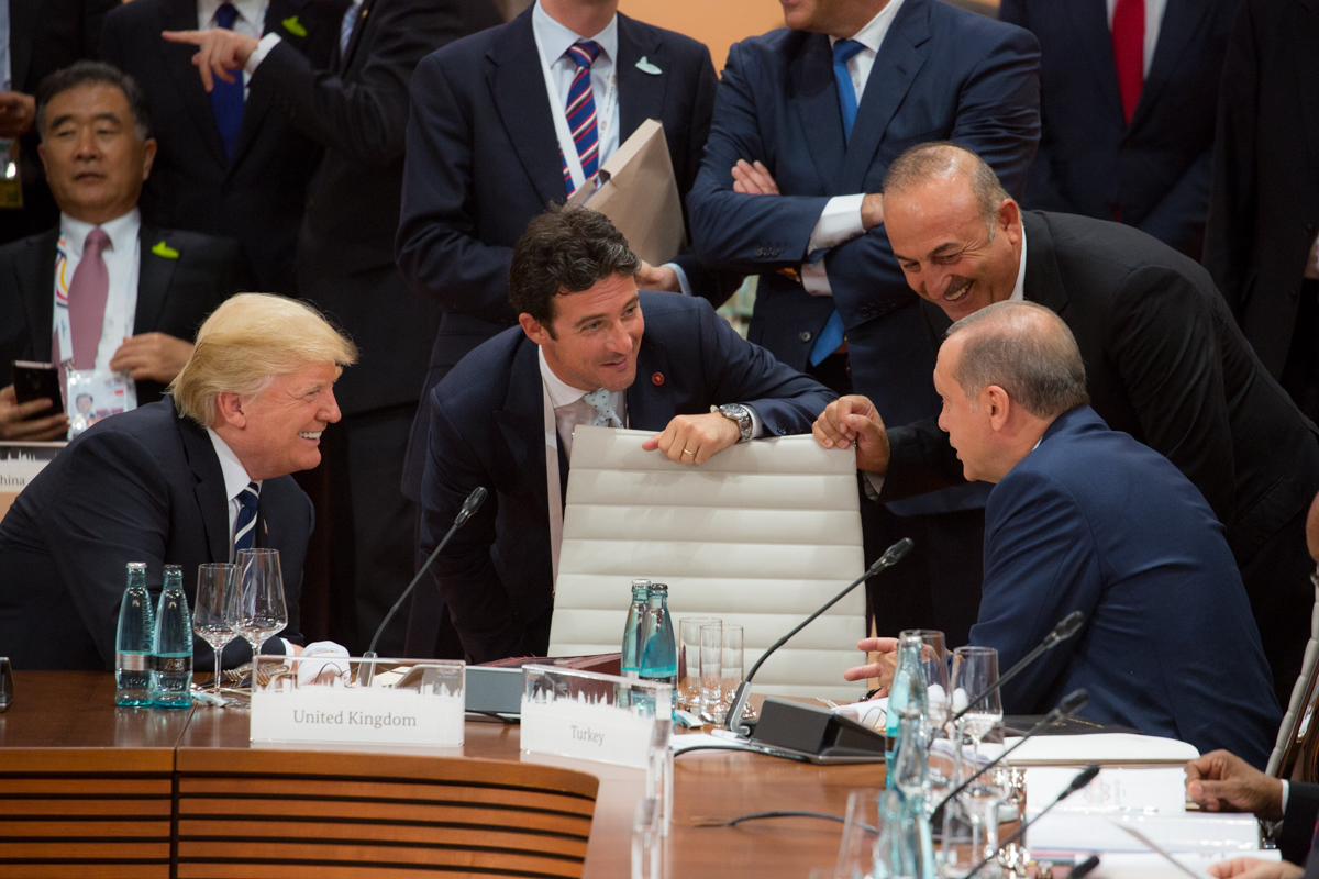 The G20 Summit working lunch | July 7, 2017 (Official White House Photo by Shealah Craighead)